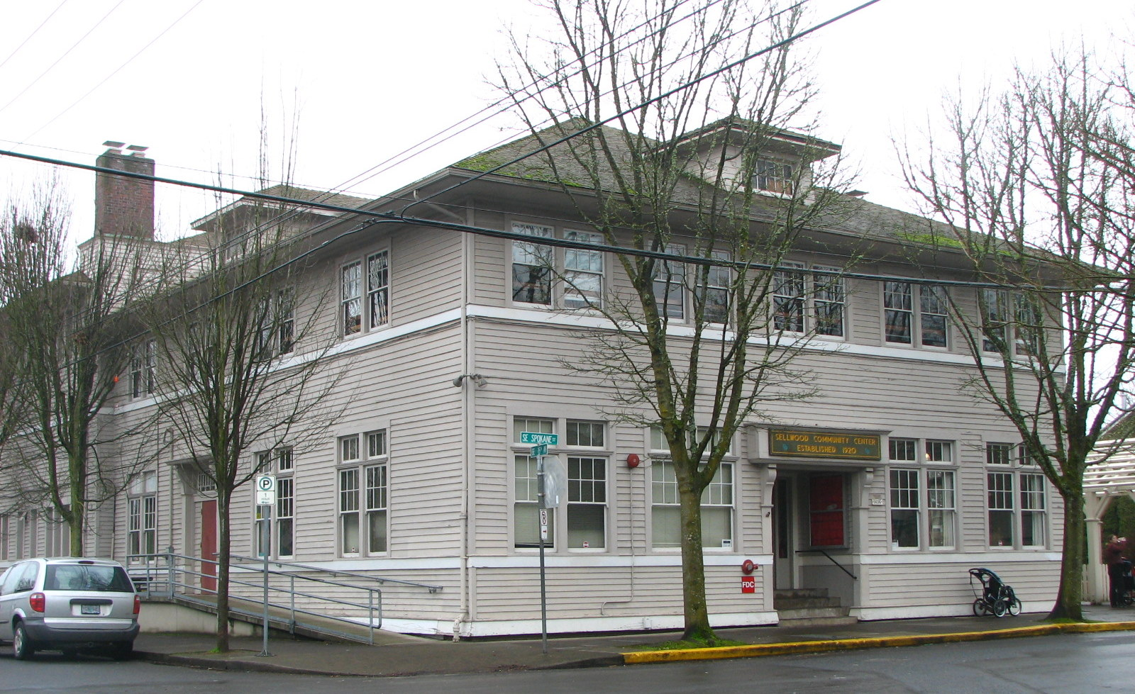 The historic Sellwood Branch of the YMCA (built 1910), located at 1436 Southeast Spokane Street in Portland, Oregon, United States, is listed on the US National Register of Historic Places. It is currently a community center operated by the City of Portland.